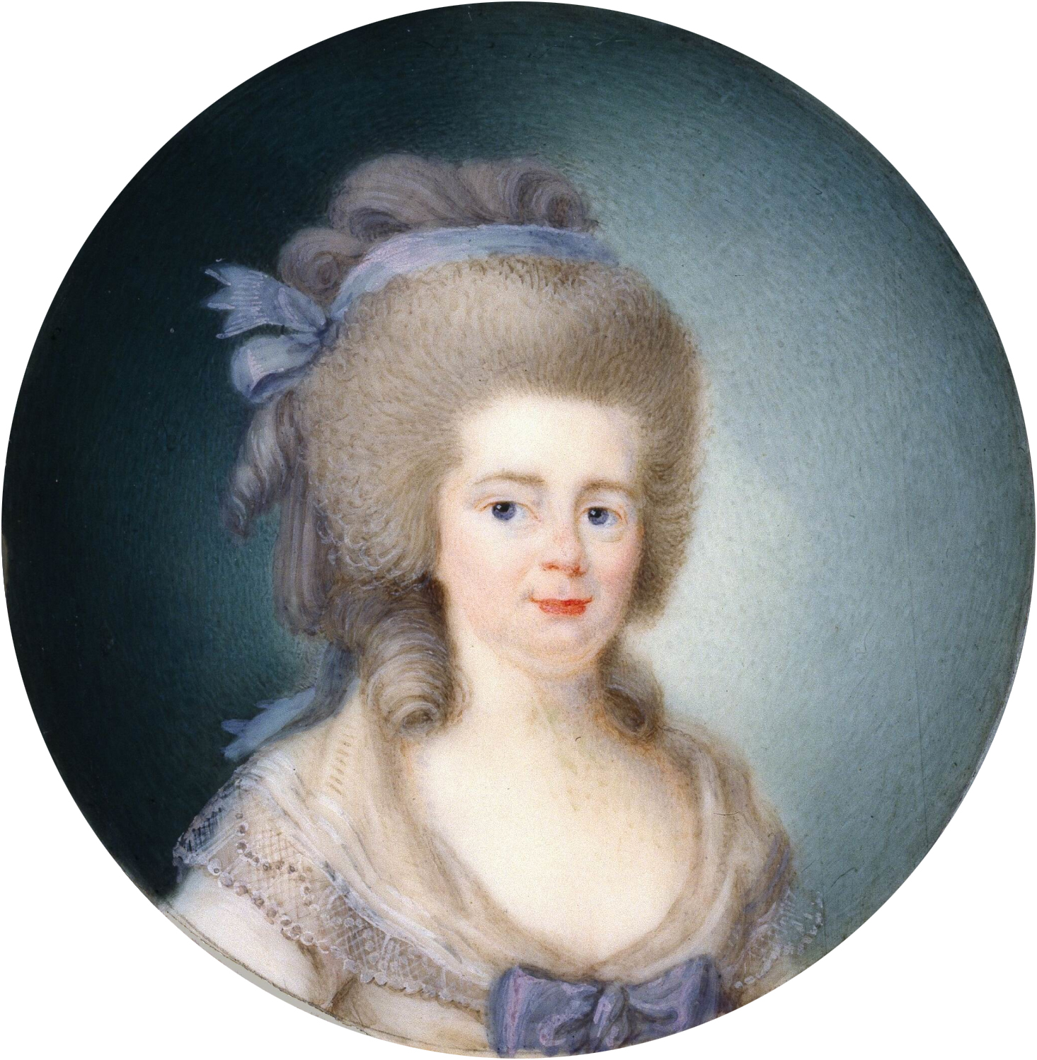 Portrait of Margravine Friederike of Brandenburg-Schwedt (1736-1798)